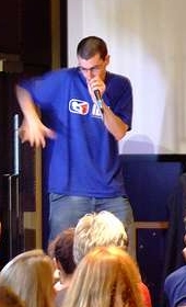 Shlomo beatboxing at the Dana Centre in London.